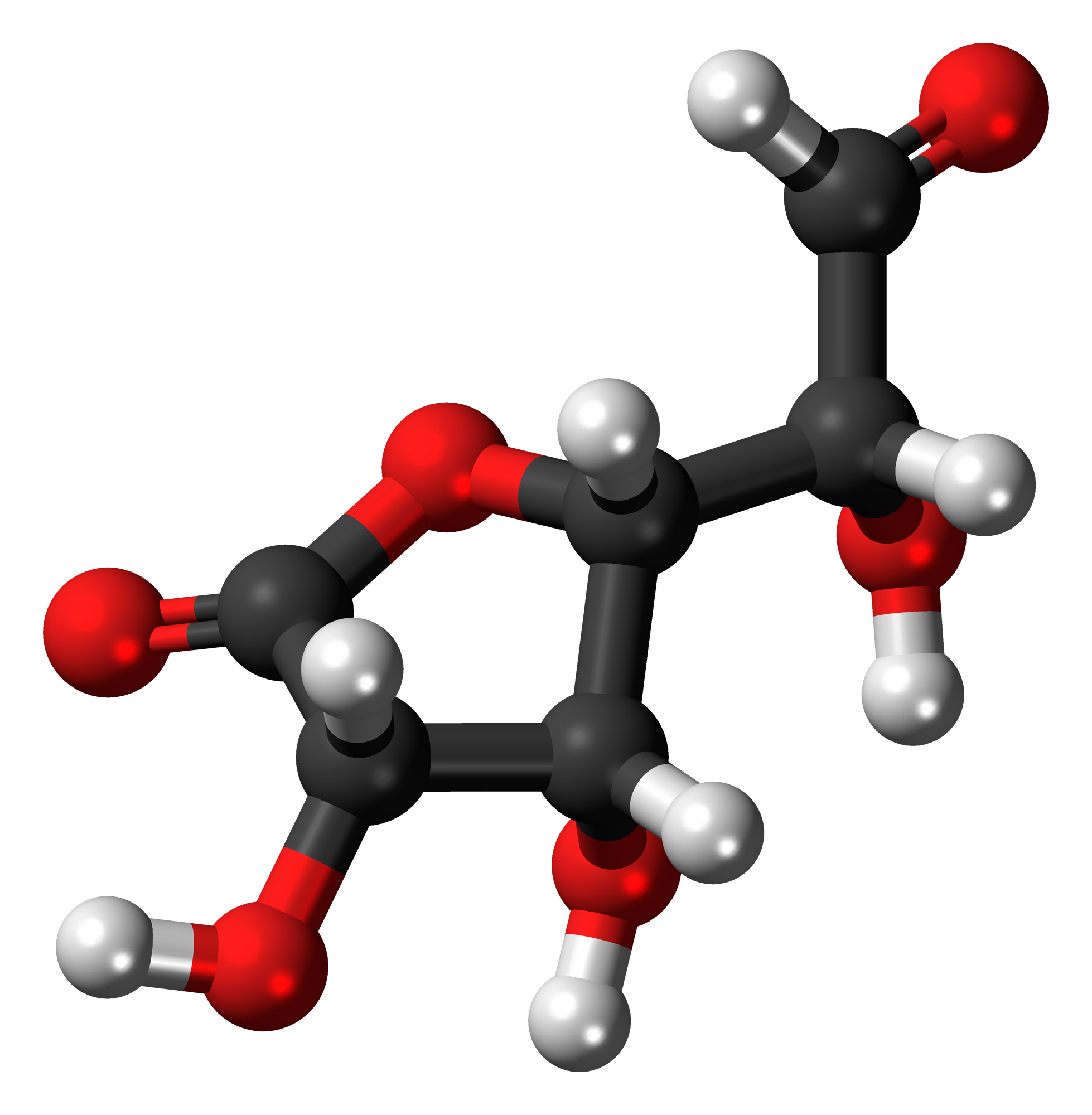 Ball-and-stick model of the glucuronolactone molecule, a structural component in nearly all connective tissues. This image shows the aldehyde form. Colour code: Carbon, C: black Hydrogen, H: white Oxygen, O: red